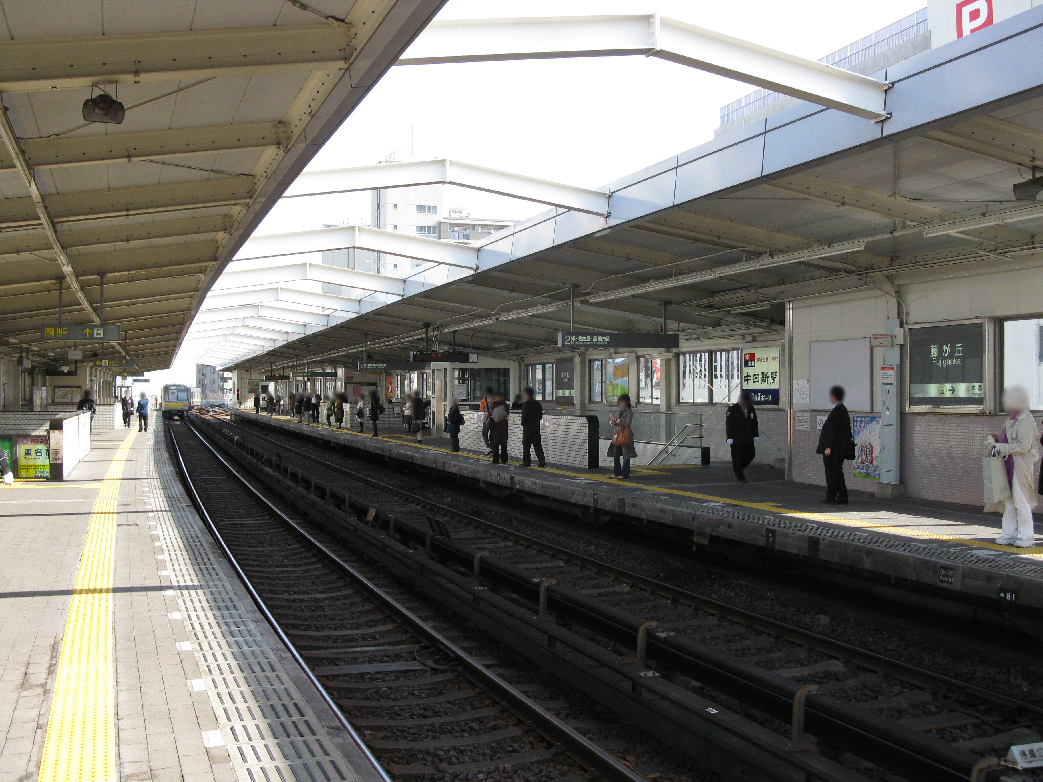 The platform at Fujigaoka Station on the Nagoya Municipal Subway